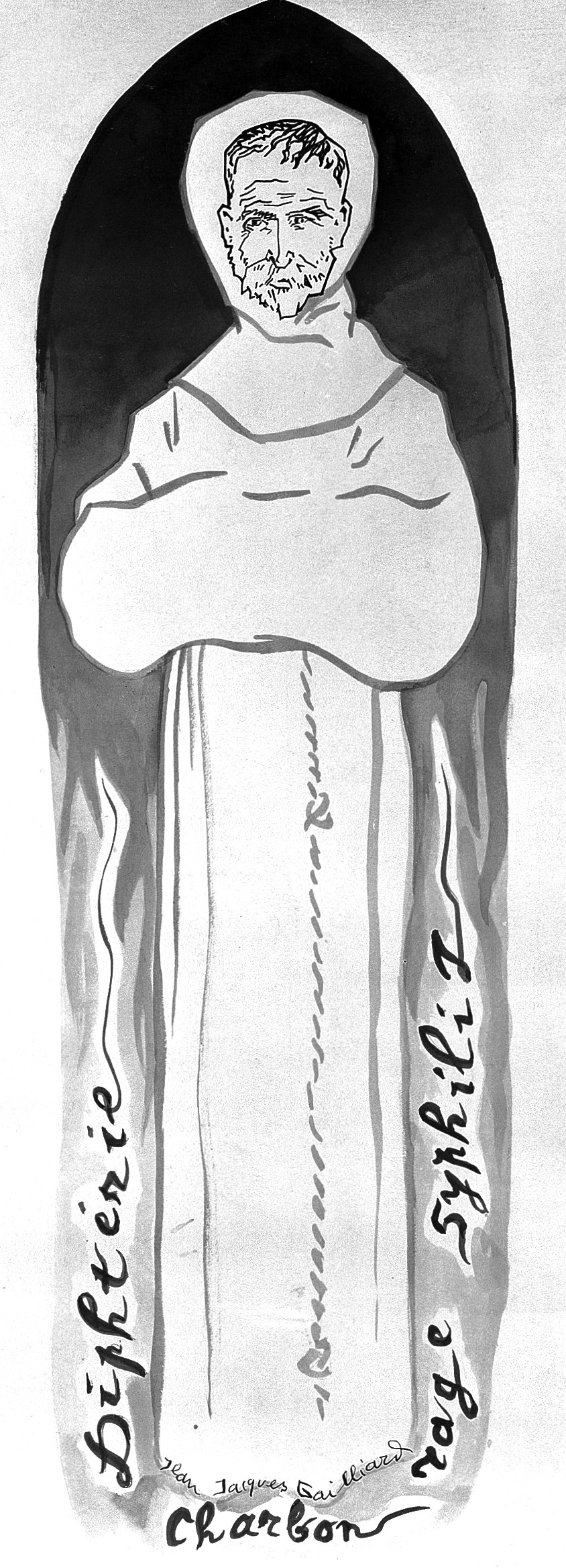 Drawing of a monk Wellcome Images Keywords: Jean-Jacques Gailliard